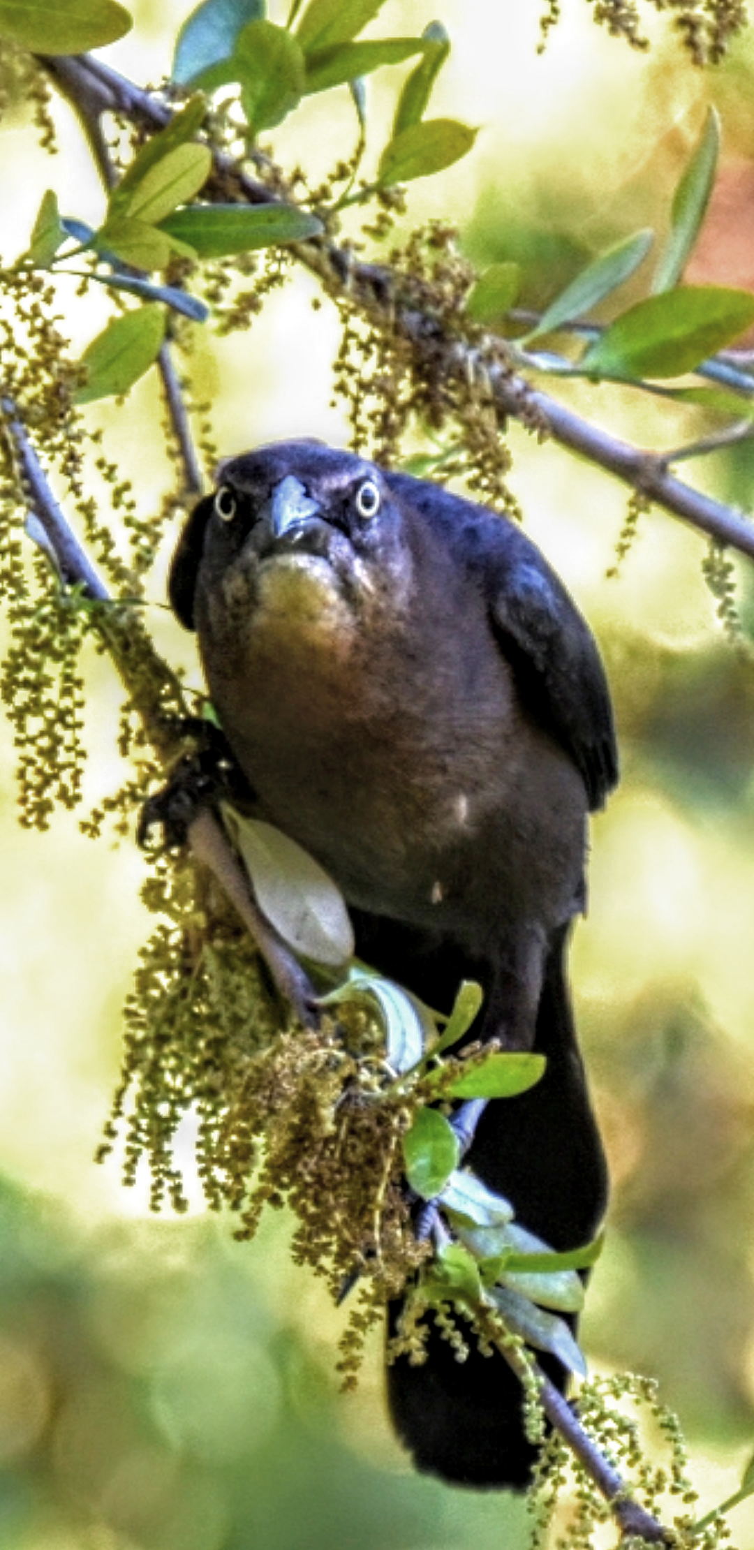 Great-tailed grackle